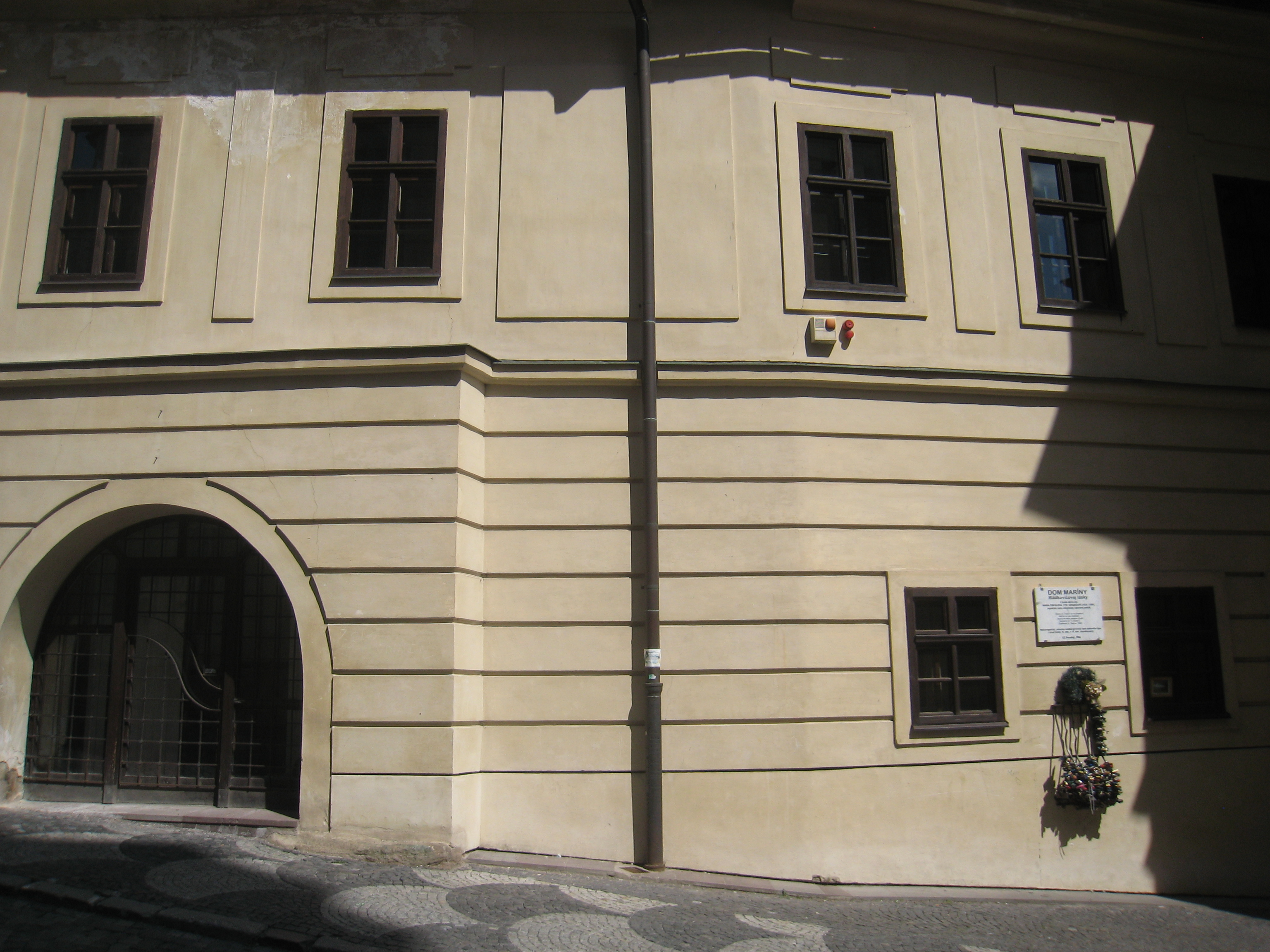 The house of Marina in the centre of Banska Stiavnica.